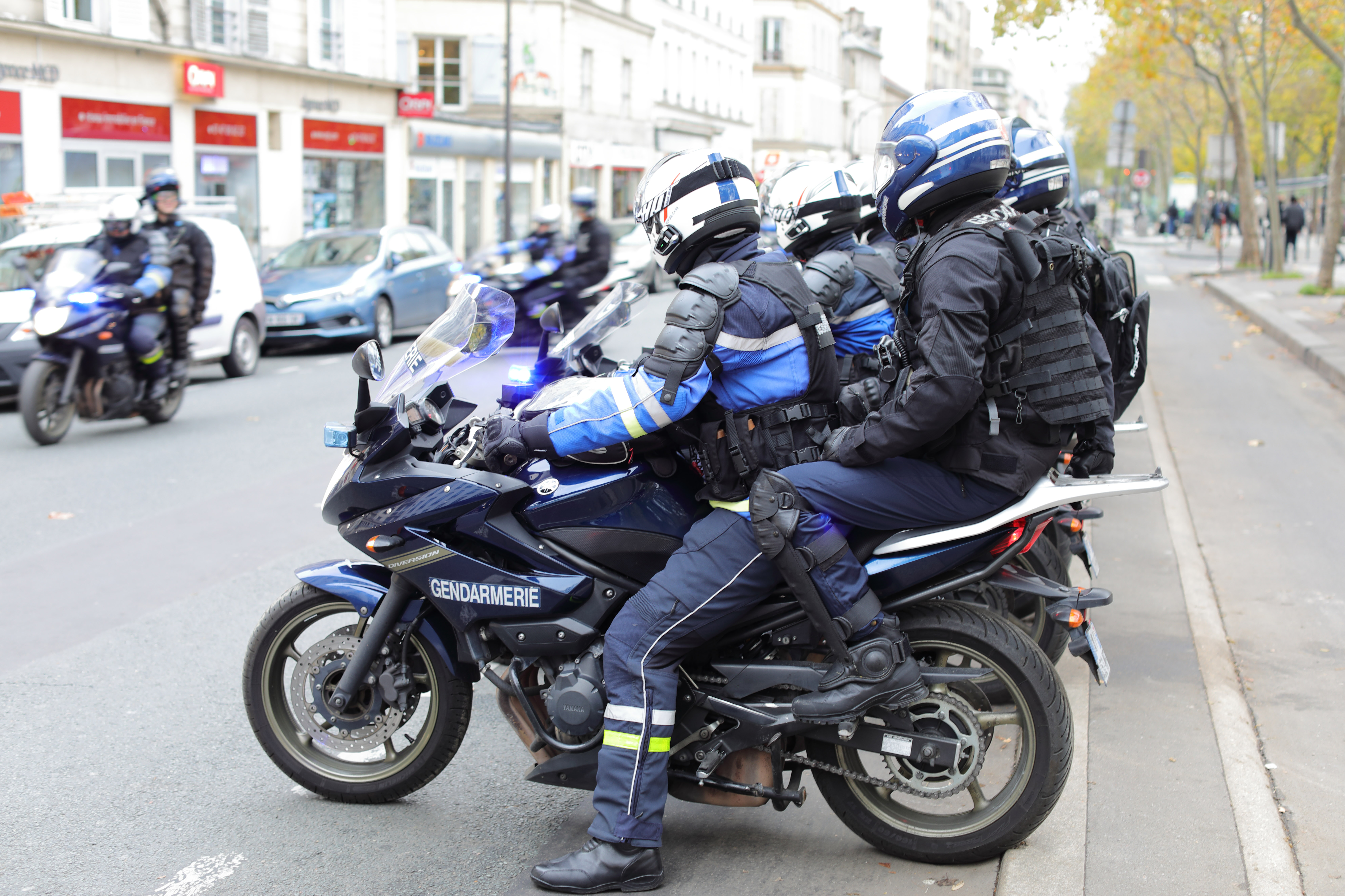 A BRAV team is a highly mobile team created by associating a motorcyclist and a police officer or a gendarme so they can intervene quickly during violent demonstrations